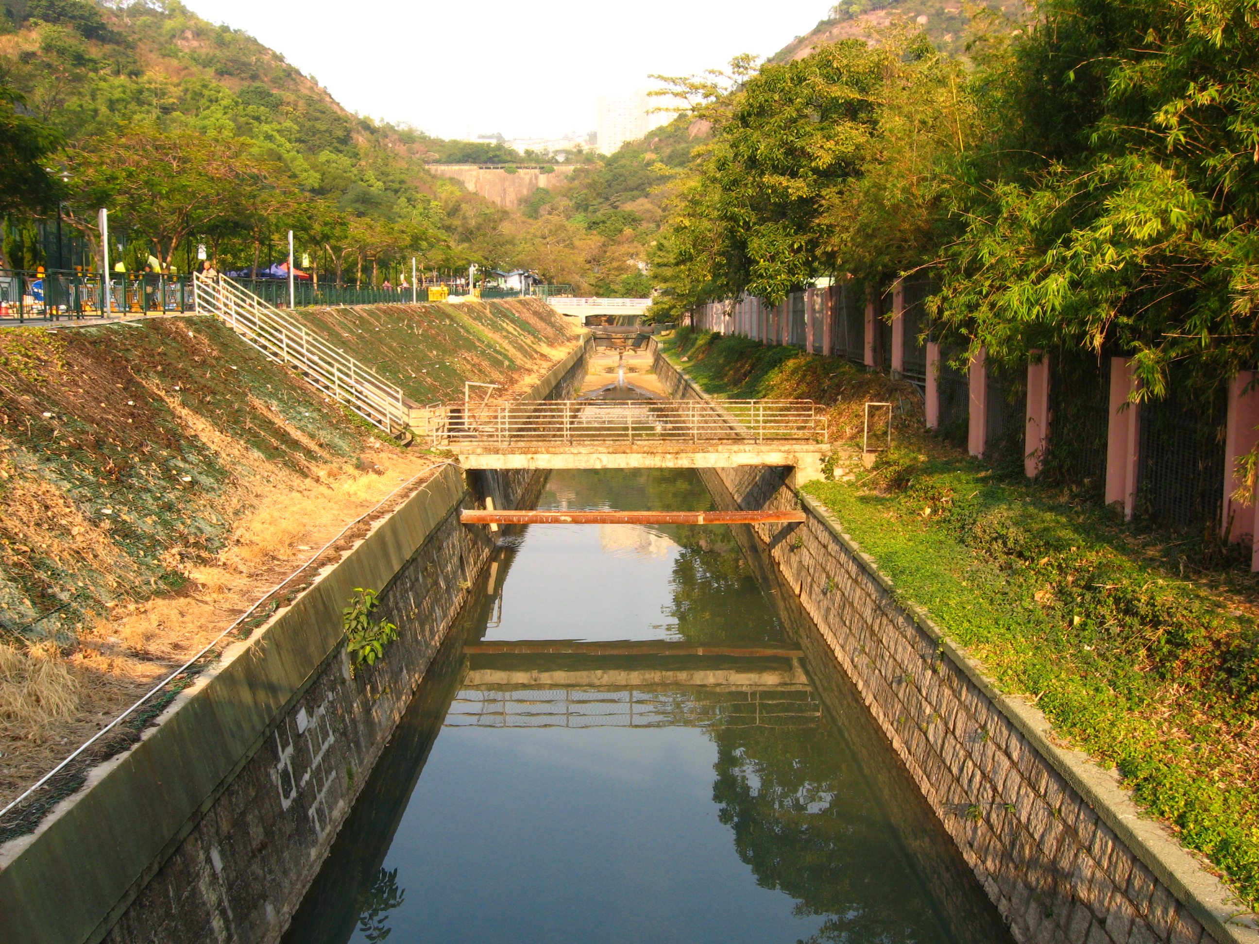 Jordan Valley, Hong Kong